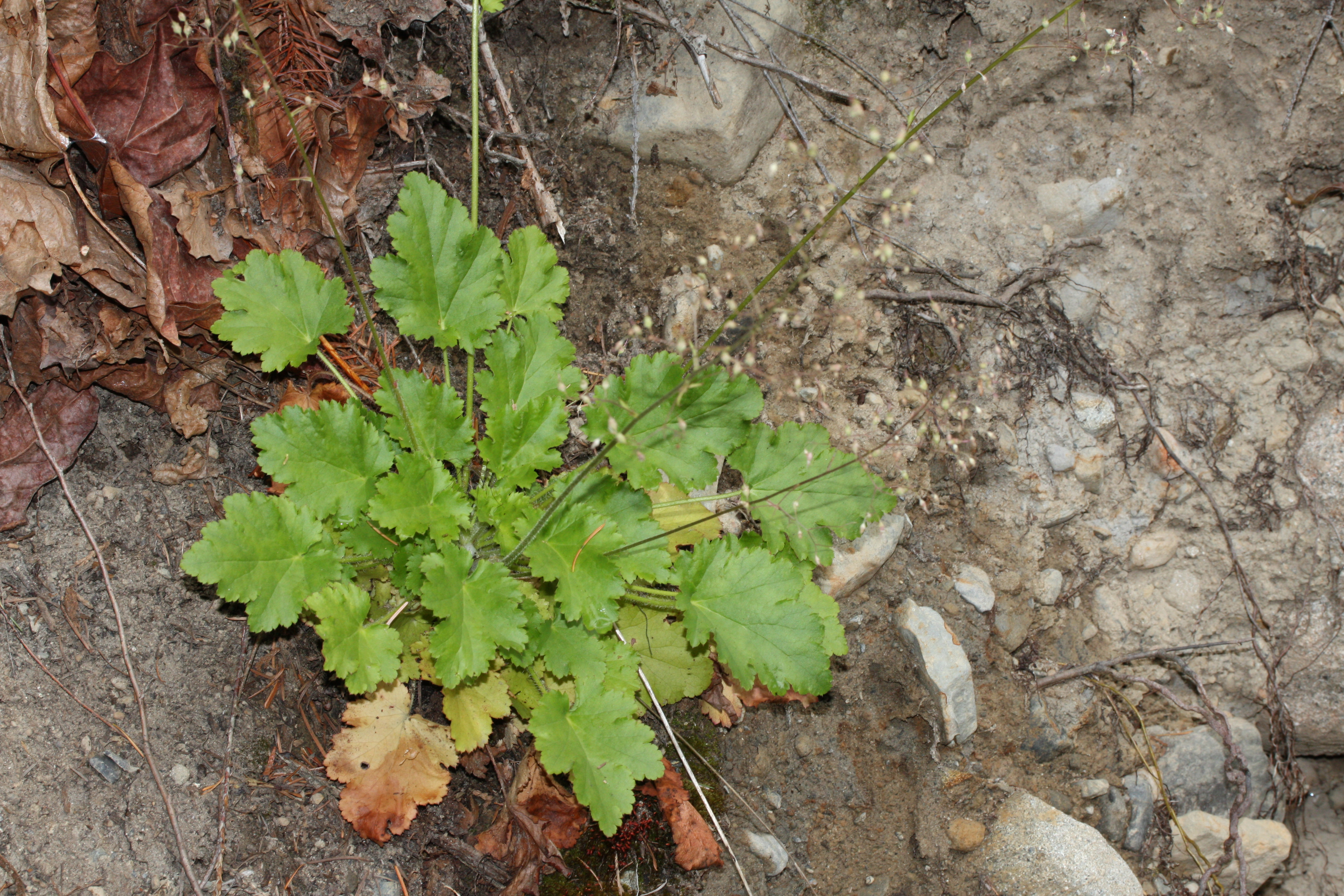 Smallflower Alumroot